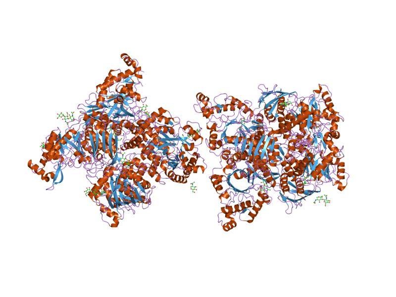 Cartoon representation of the molecular structure of protein registered with 2gjx code.